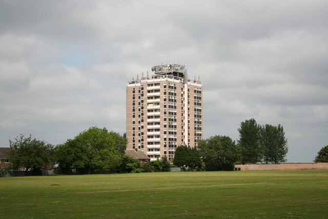 Trent View House, Asterby Road, Westcliff, Scunthorpe, Lincolnshire